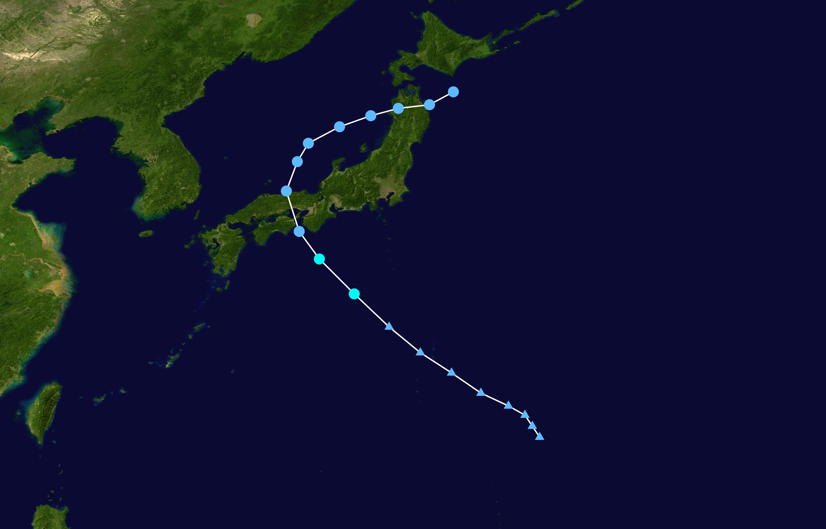 Tropical Storm Malou (2004) track. Uses the color scheme from the Saffir-Simpson Hurricane Scale.